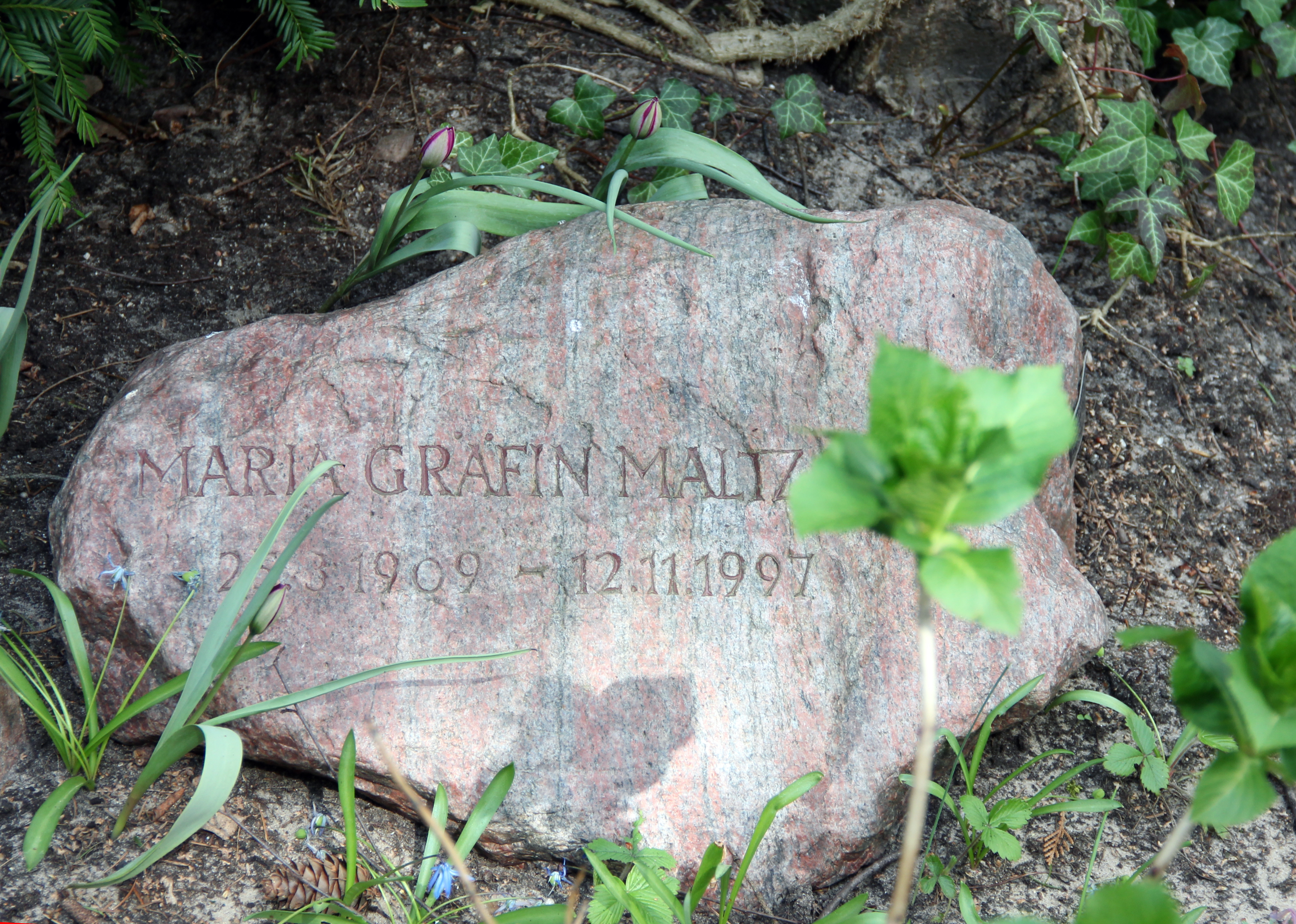 Grave, Maria Gräfin von Maltzan, Trakehner Allee 1, Berlin-Westend, Germany